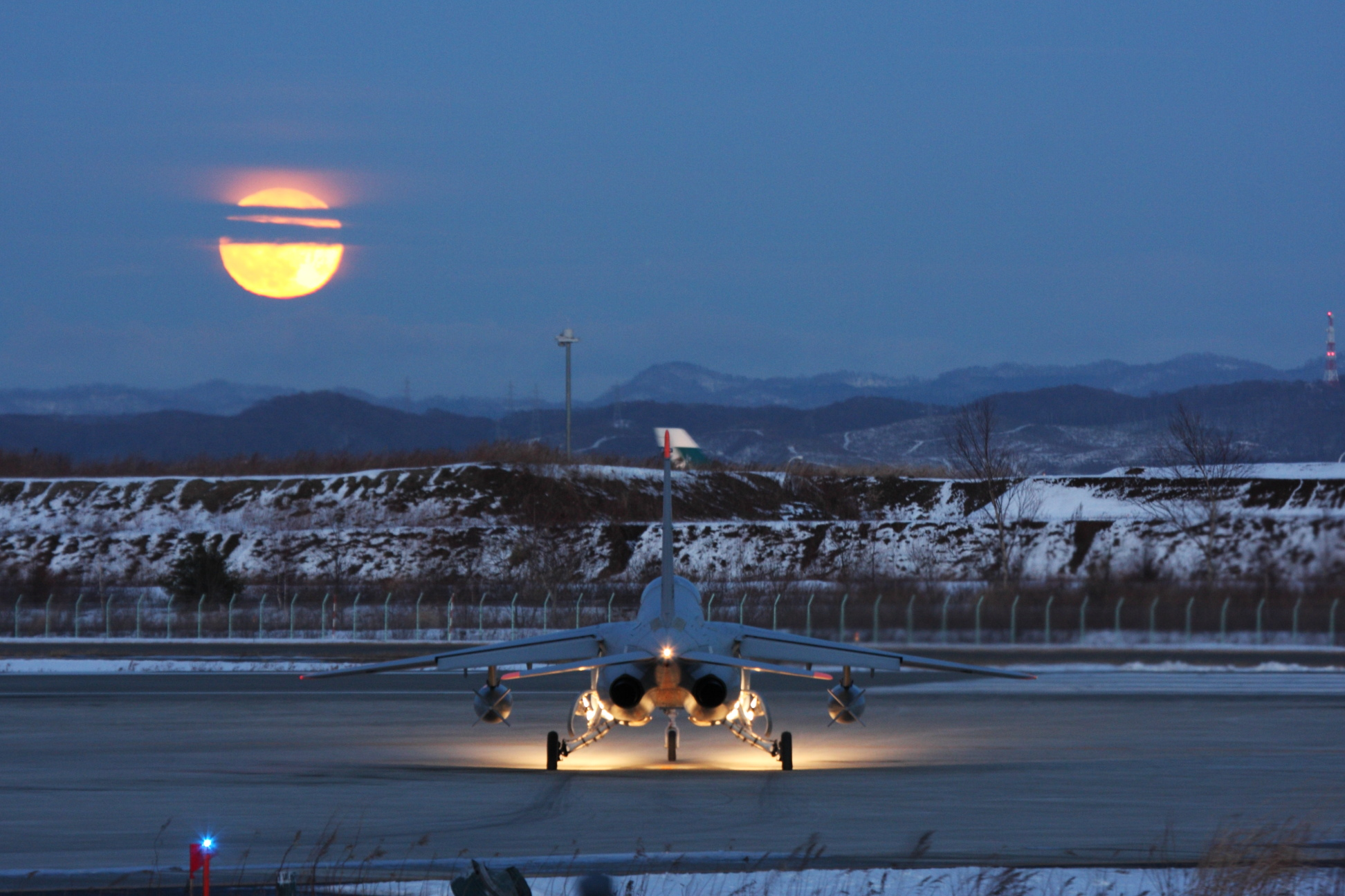 Kawasaki T-4 night operations at Chitose Air Base